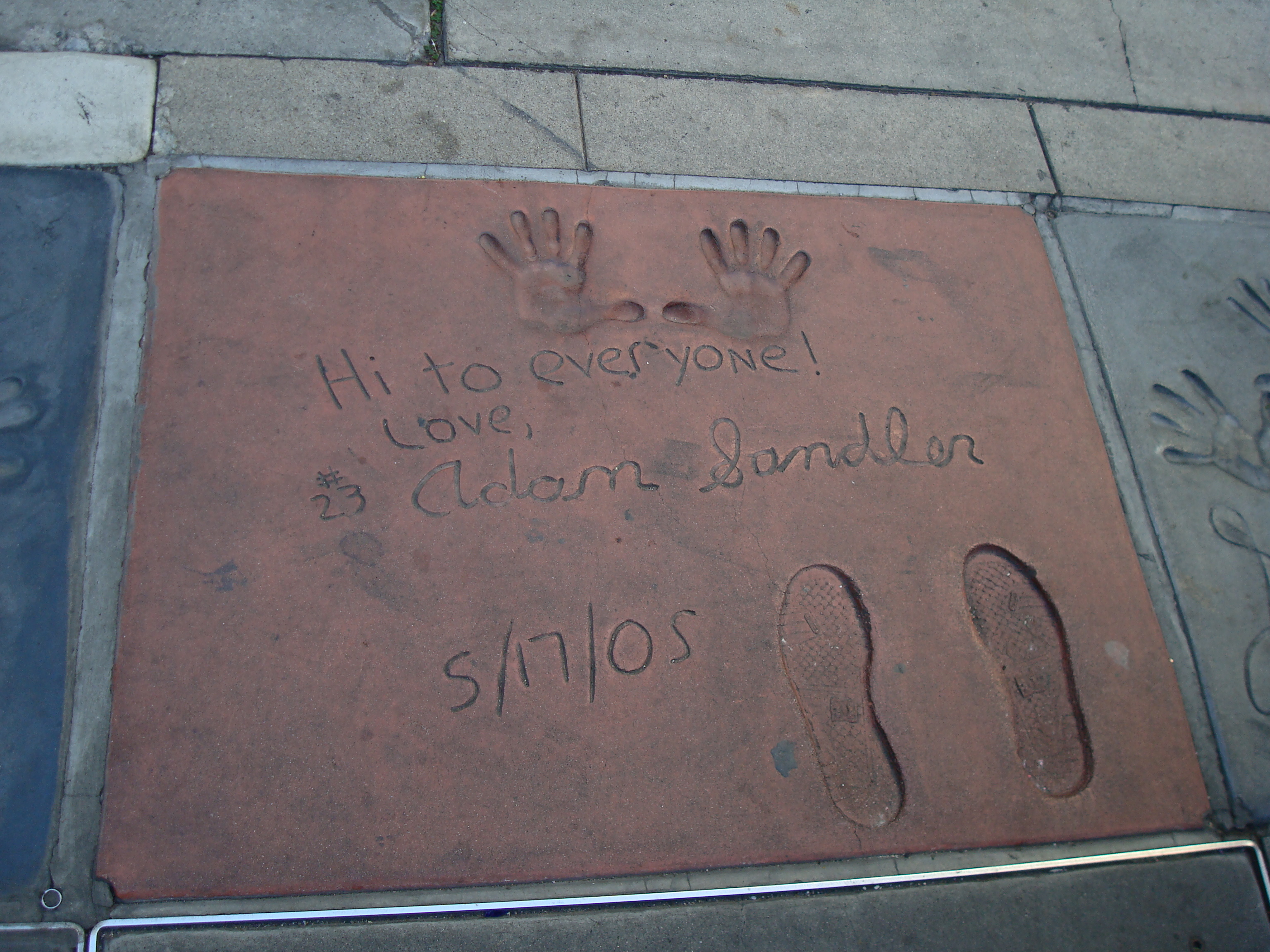 The handprints of Adam Sandler in front of Grauman's Chinese Theatre.